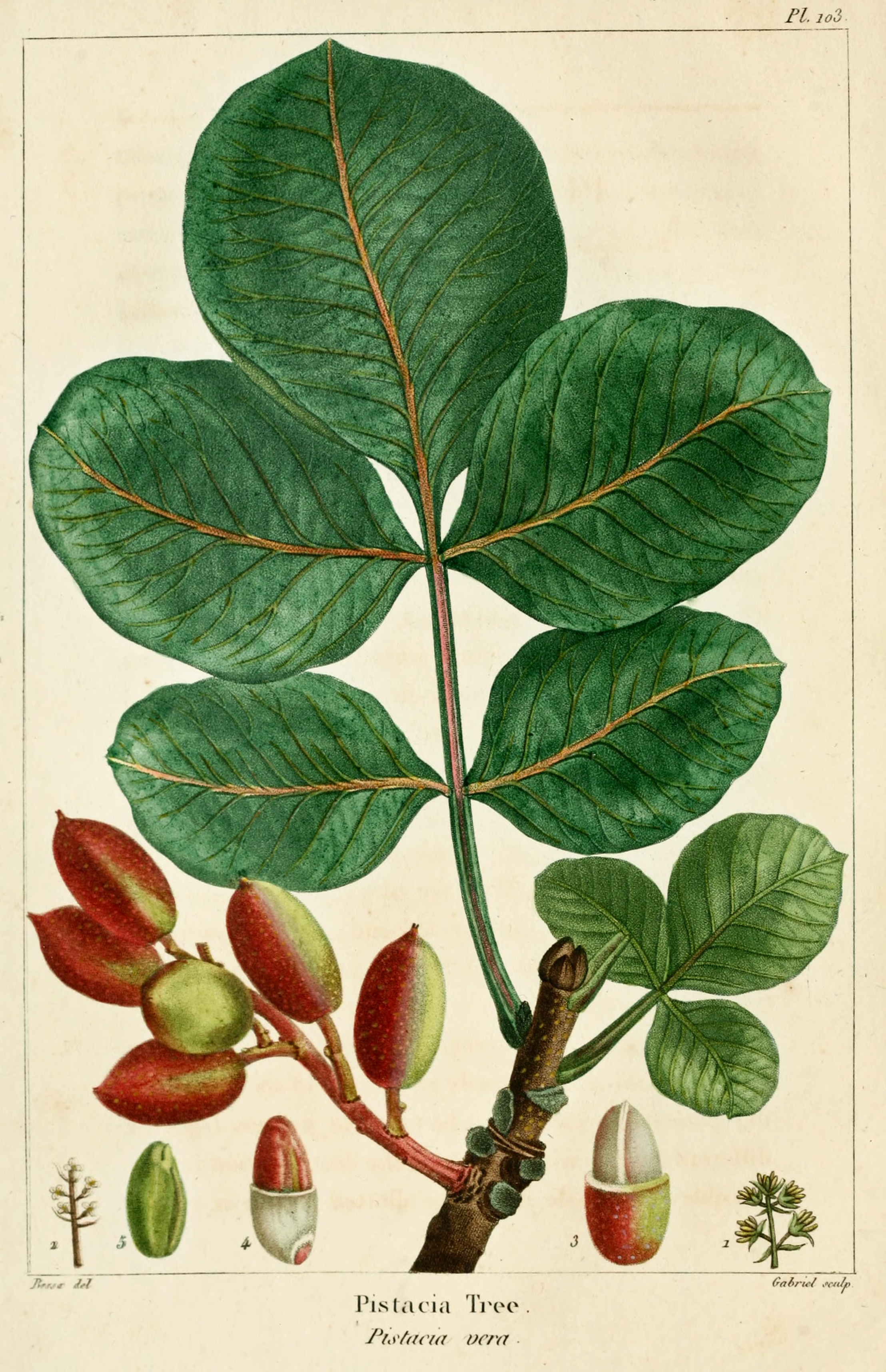 Plate 103 from The North American Sylva: sssssssssssss. (Original caption: Pistacia tree. Pistacia vera.)